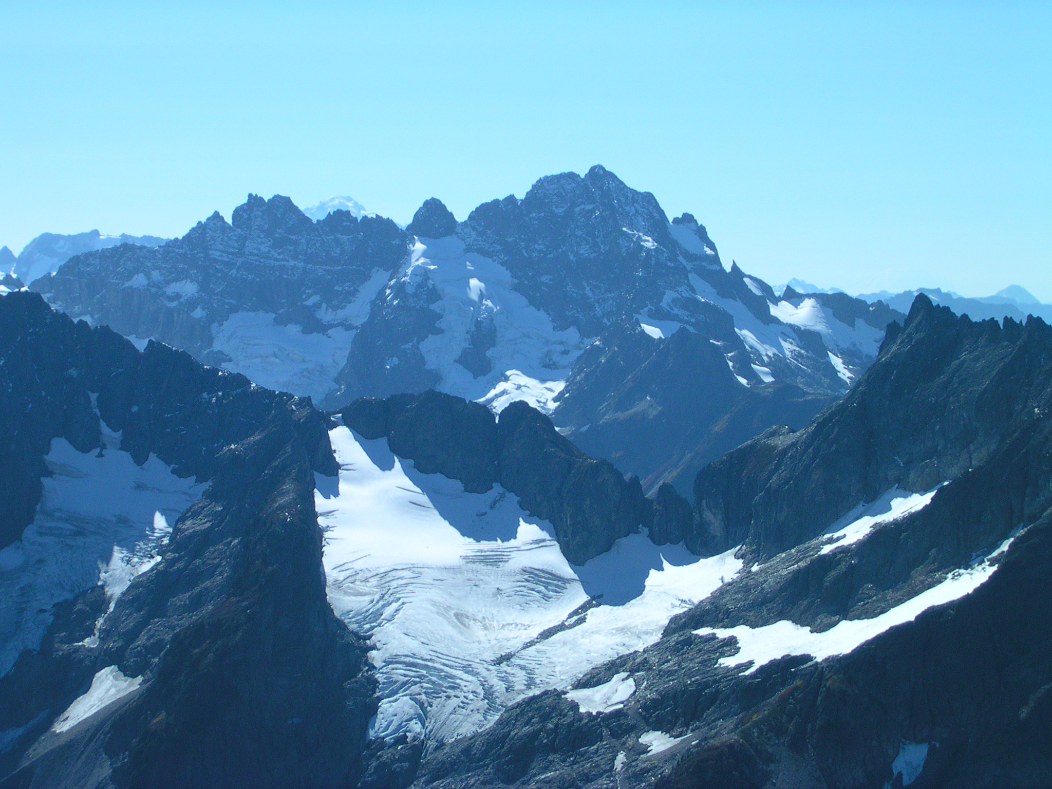 The Cache Col Glacier as seen from Sahale Arm. Mount Formidable is visible immediately above the glacier, and Dome Peak and Spider Mountain can be seen in the background.